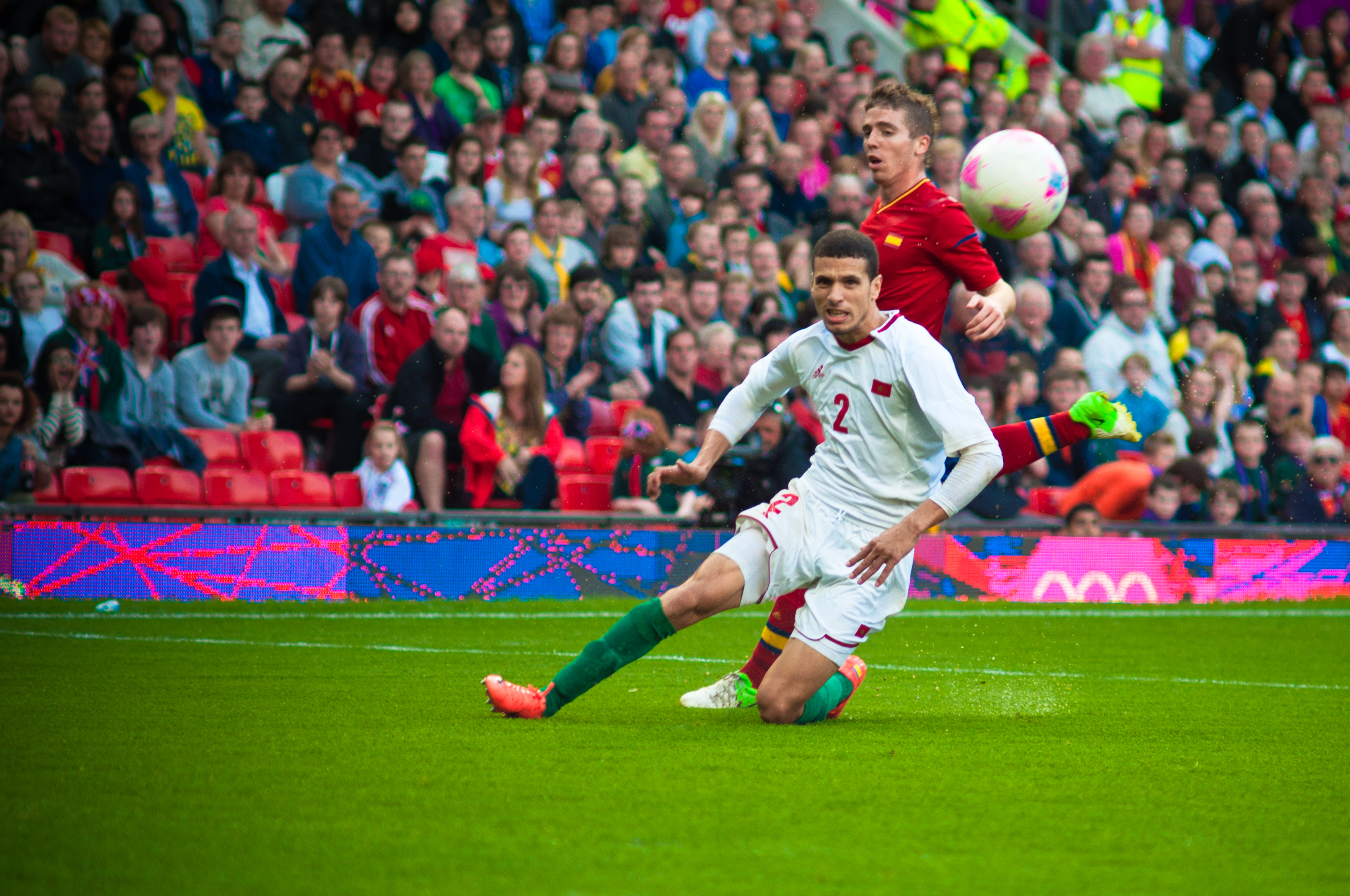 Abdelatif Noussir and Iker Muniain (background).